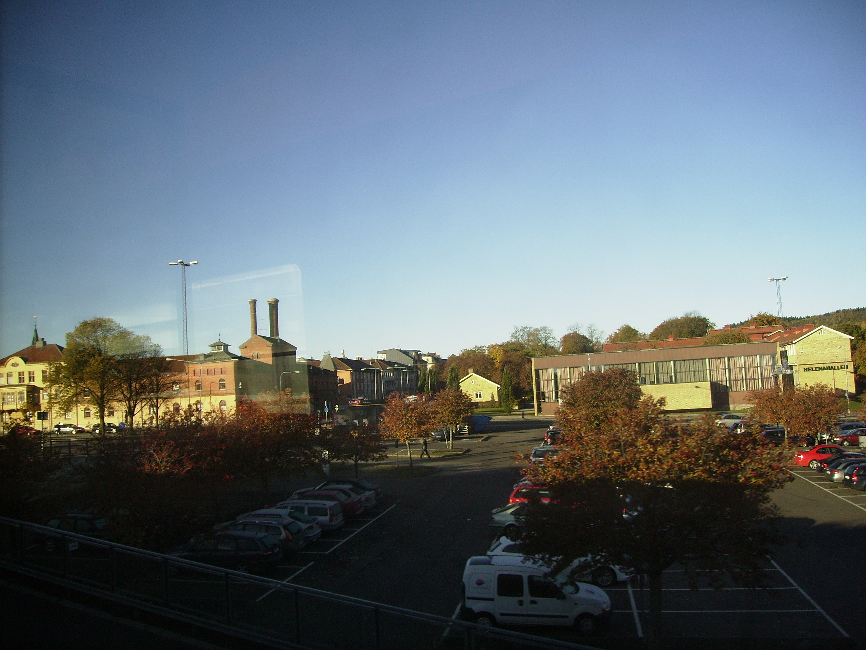 Picture of Skövde in Västergötland